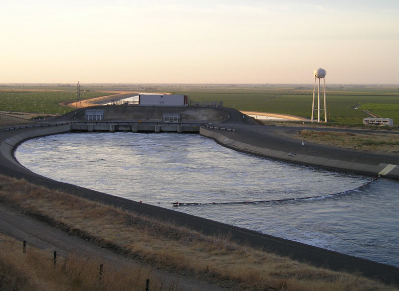 The Dos Amigos Pumping Plant on the California Aqueduct — located 10 miles (16 km) south of Los Banos near I-5, in Merced County, California. It lifts water coming from the north (top of photo) 118 feet (36 m), to flow by gravity to the next pumping station 164 miles (264 km) south (Kettleman City area). A part of the California State Water Project system infrastructure. Taken by Elf